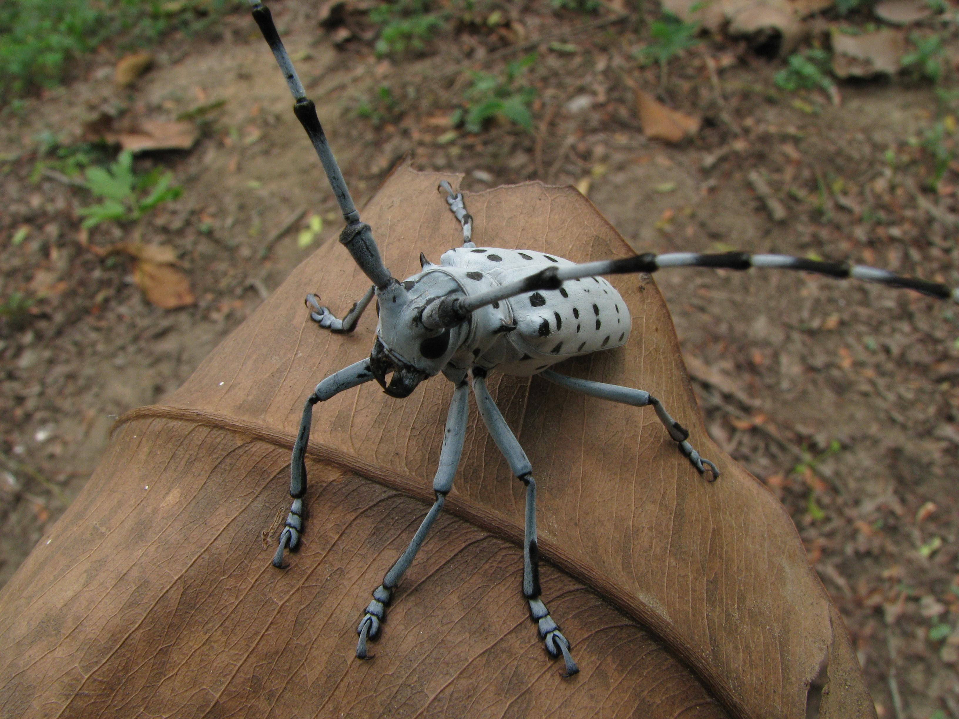 Pseudonemophas versteegi (Ritsema, 1881) from Pakke Tiger Reserve in North-east India